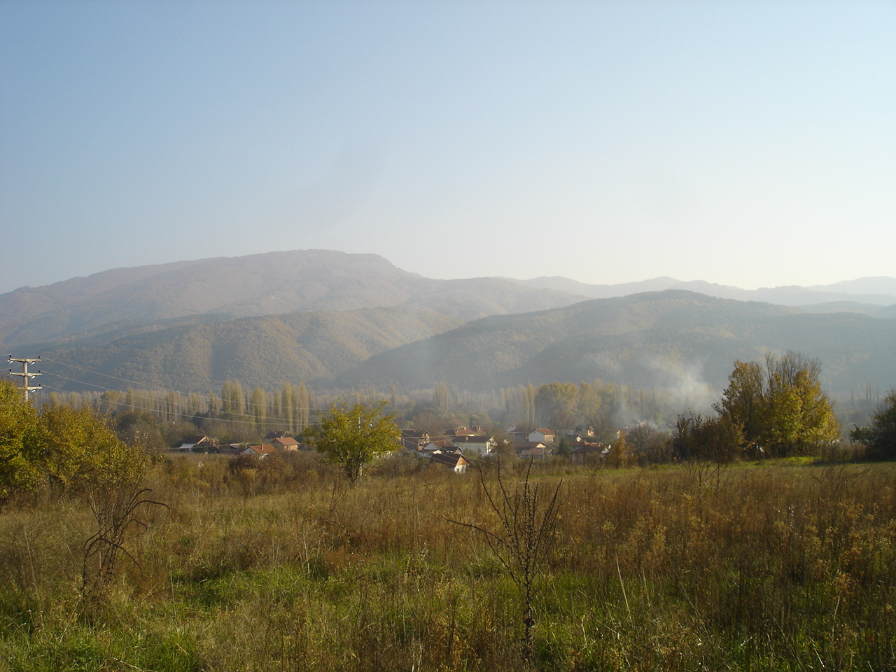 village of Ginovci in Slavište valley, Macedonia